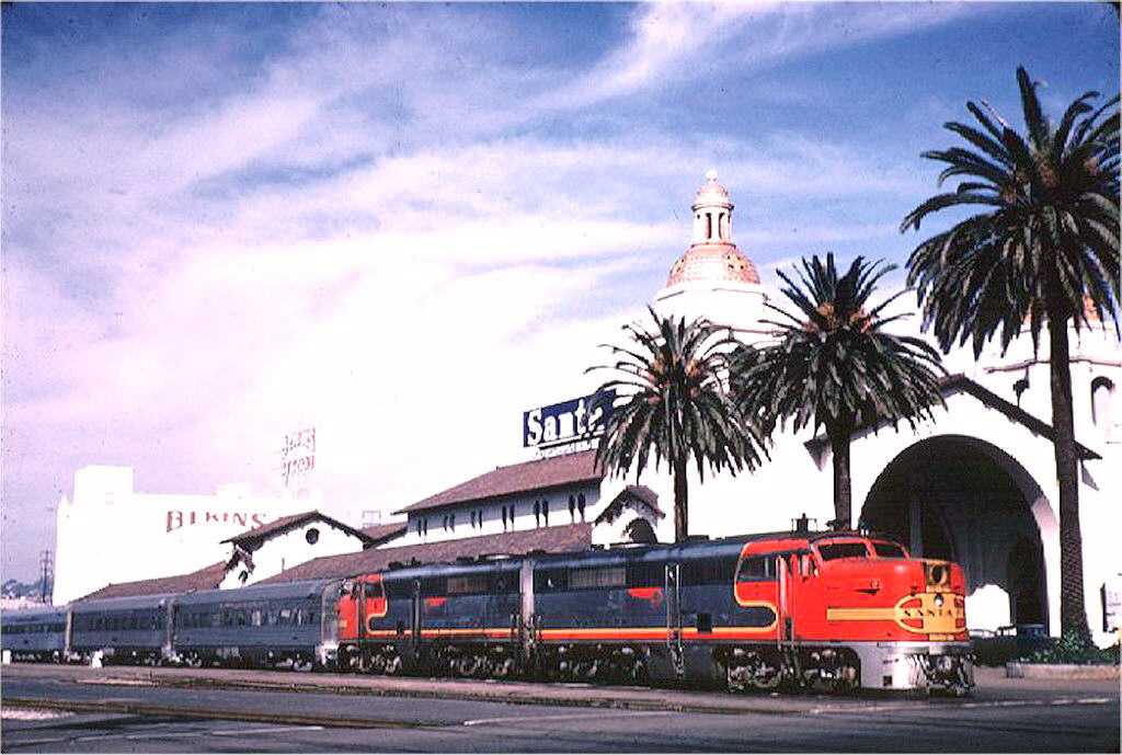 The AT&SF San Diegan reaches the end of the line. From "Railfanning the Santa Fe in Southern California" — copyright Surf Line Historical Society (2003), free to distribute and/or use for any purpose.